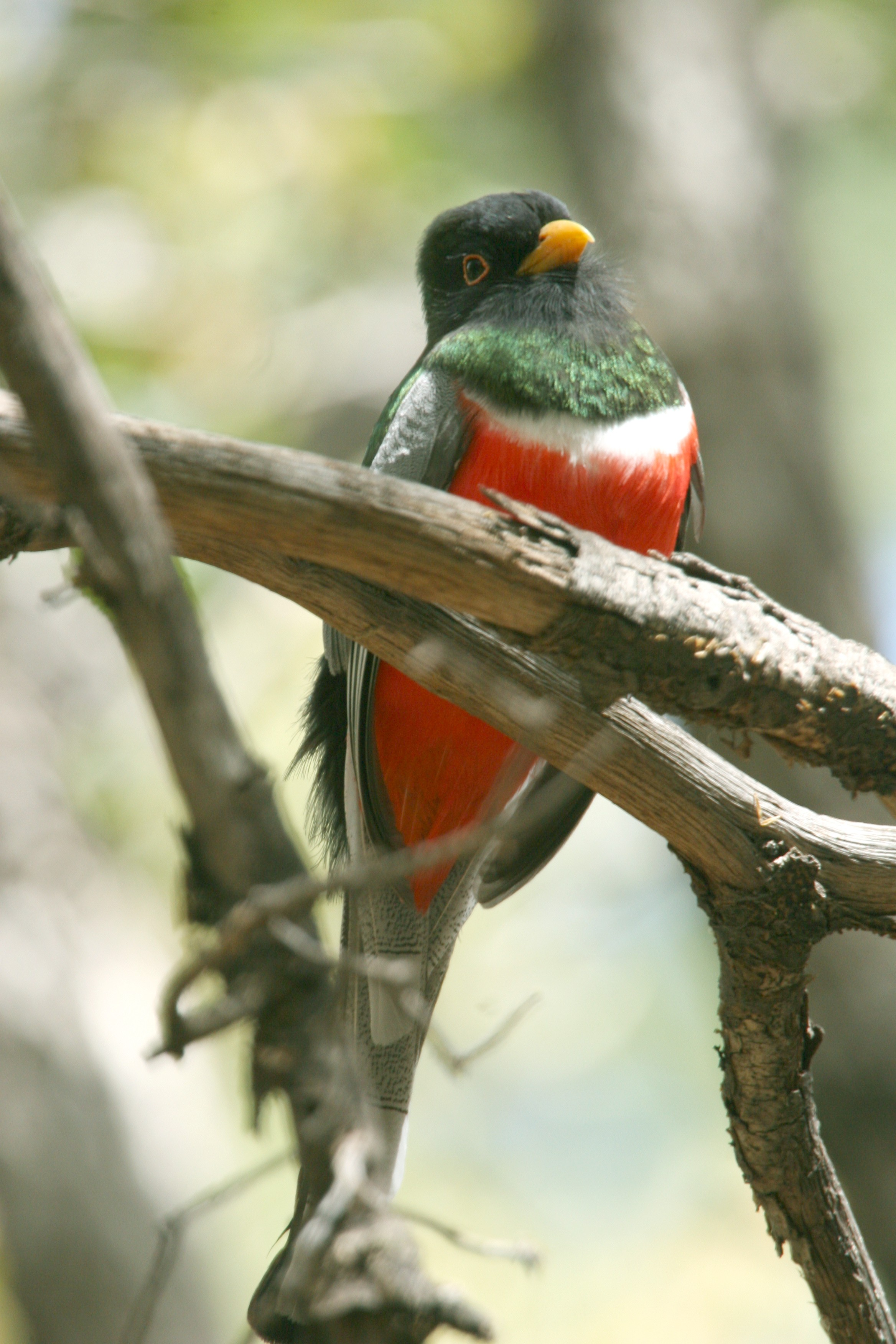 Elegant Trogon, Trogon elegans (formerly the "Coppery-tailed" Trogon)